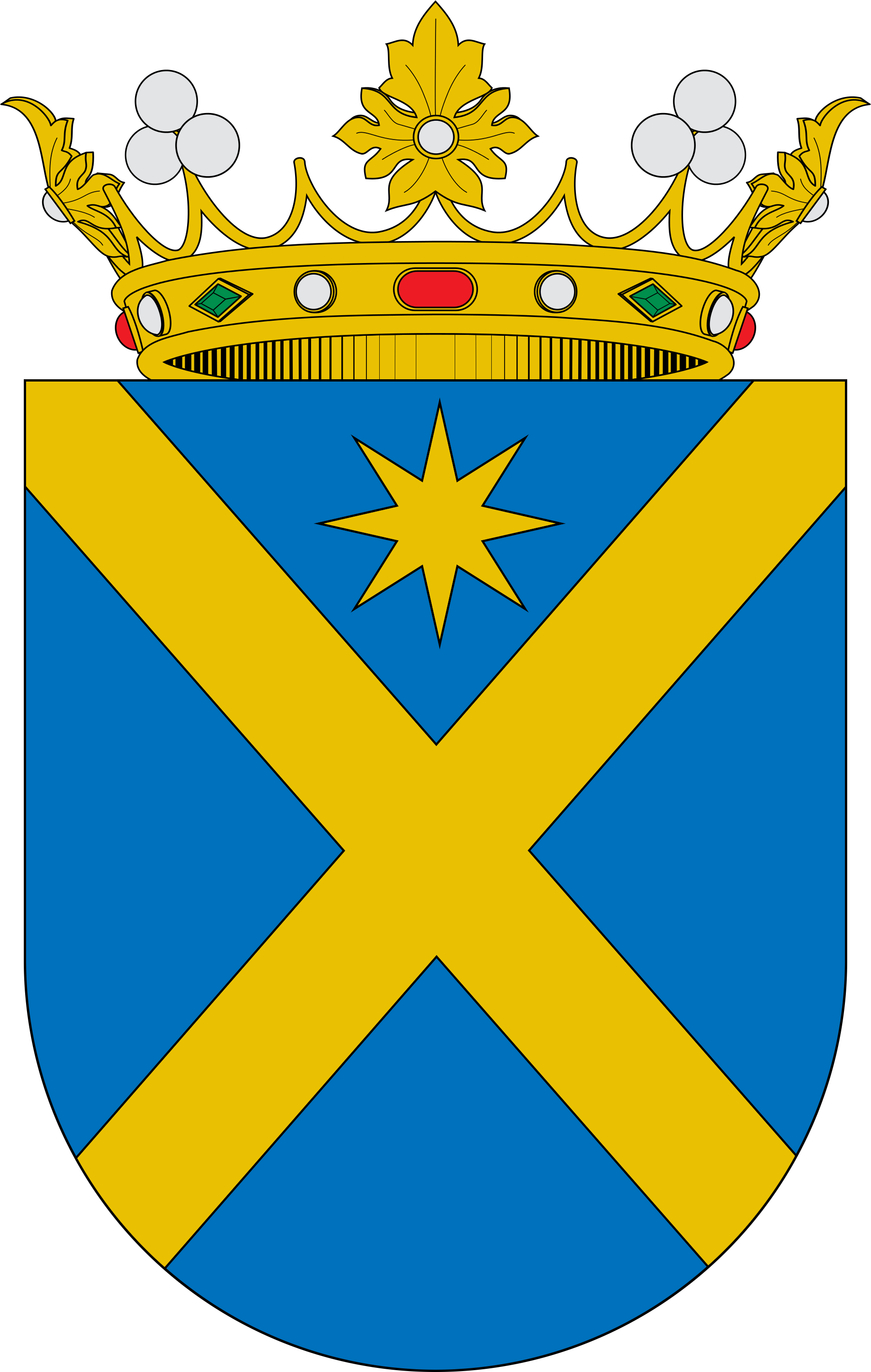 Coat of arms of Marquis of San Miguel de Aguayo